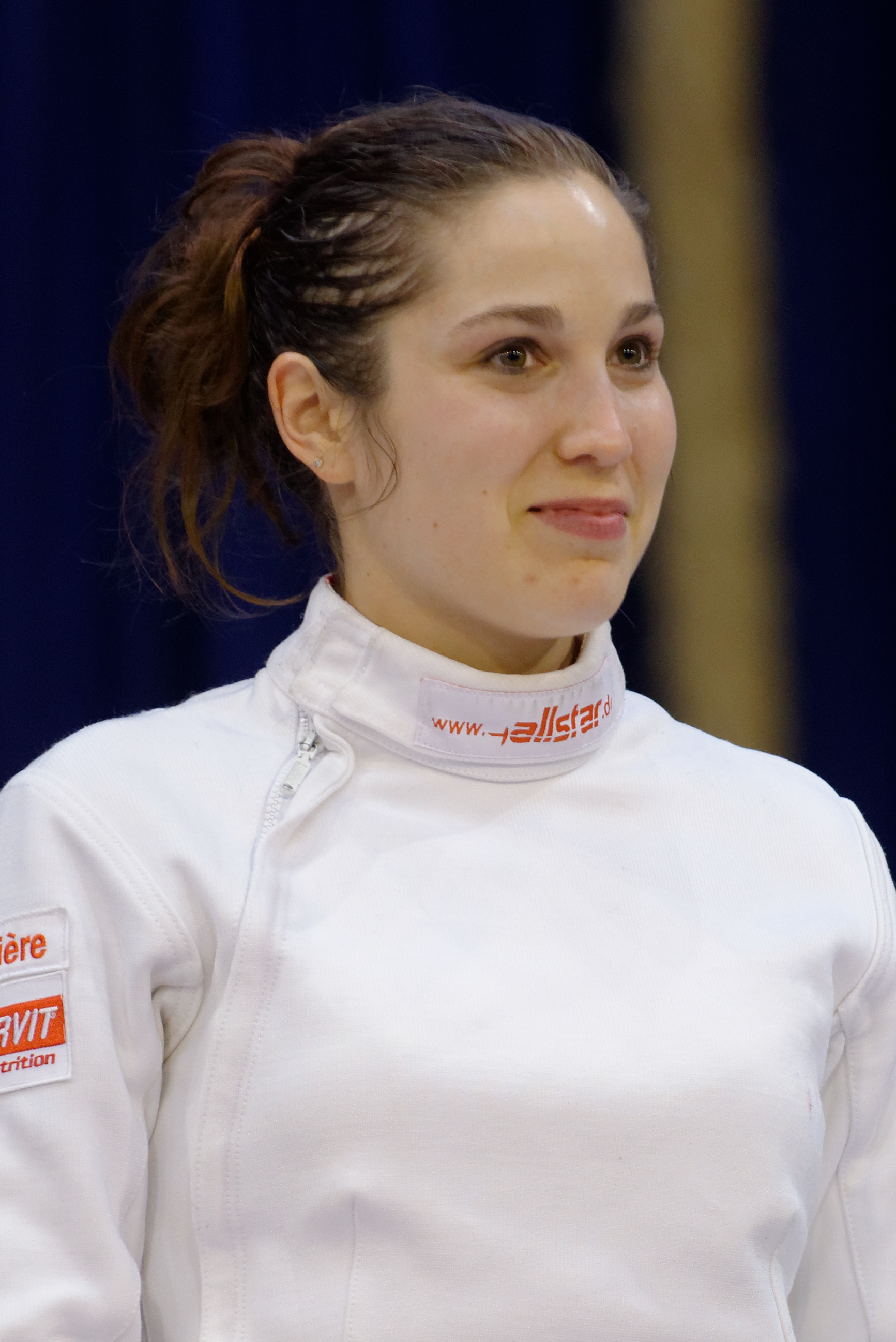 Tiffany Géroudet at the Challenge international de Saint-Maur 2013, women's épée World Cup tournament.